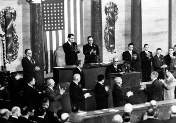 President Celal Bayar of Turkey receives a standing ovation after his speech before a joint session of Congress. Behind him are Vice-President Nixon and Speaker of the House Sam Rayburn (1954). Photo courtesy of the US National Archives.